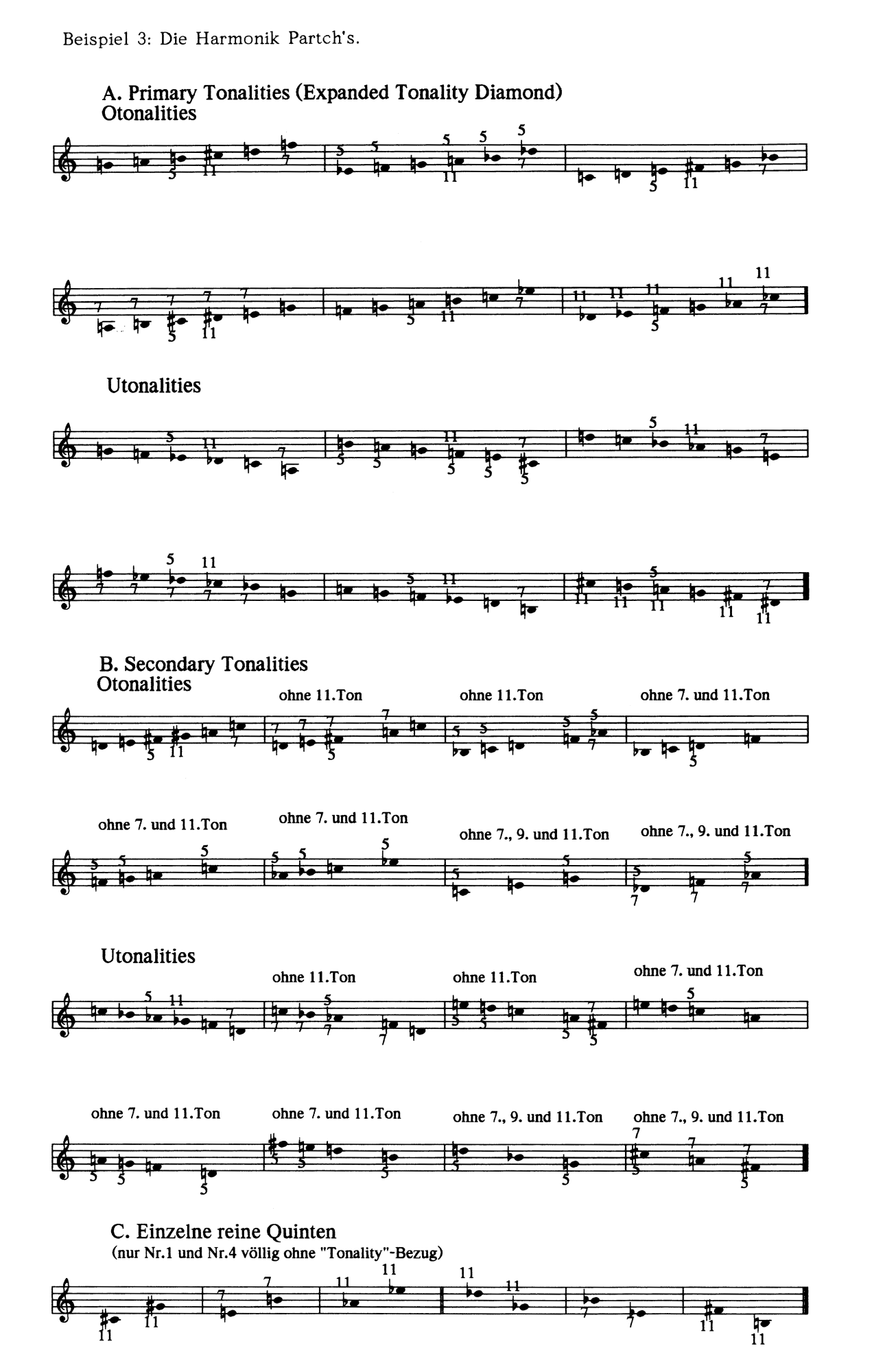 transcription of the just intonation system of composer harry partch